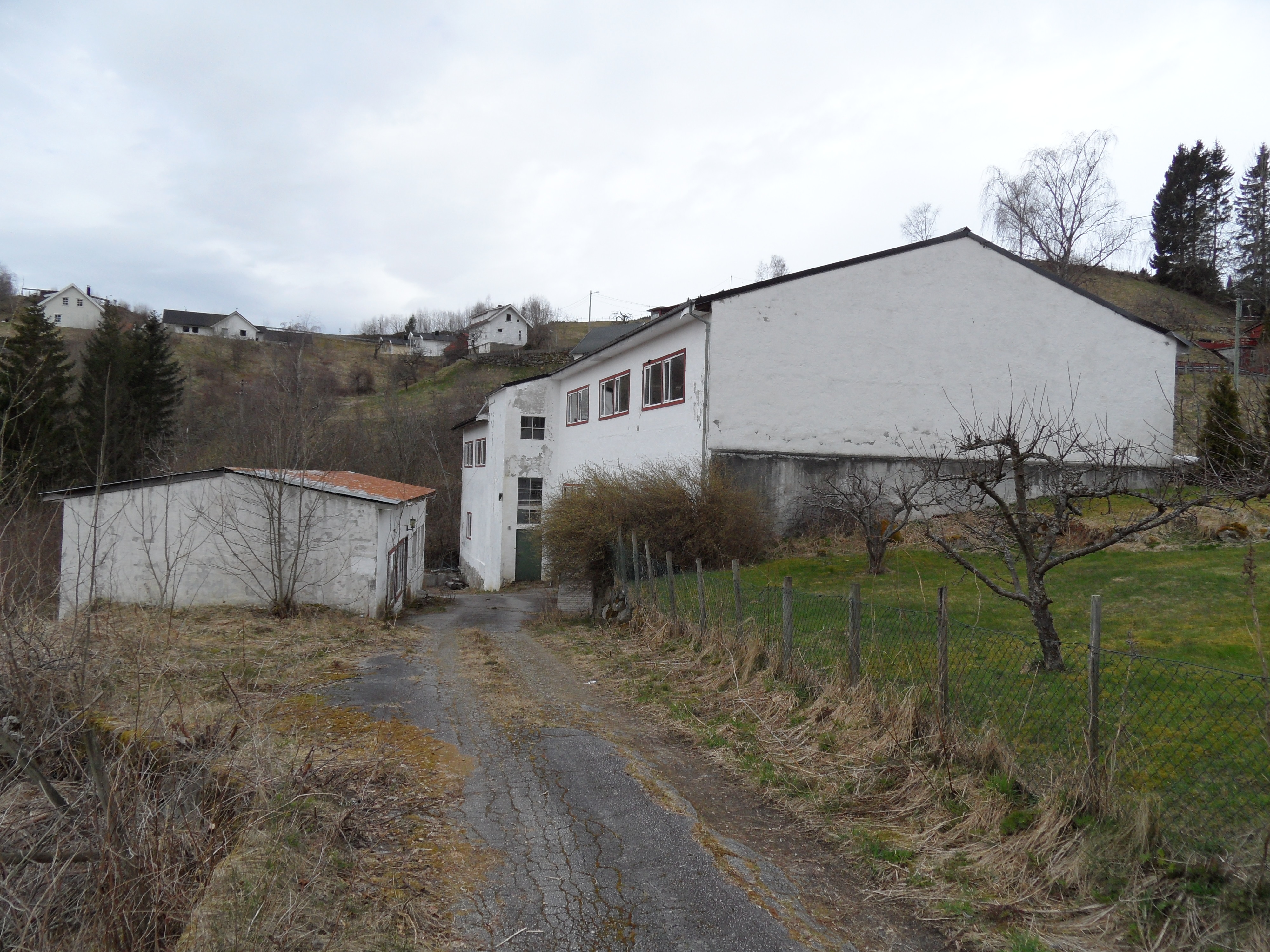 The plys and spinnery at Sygna Ullvare April 2012.